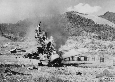 AWM caption : Wau, New Guinea A Wirraway from No. 4 Squadron RAAF in flames after being blasted and set on fire by a near miss in the Japanese raid at Wau. The crew, Flight Sergeant A. Rodburn and Sergeant A. E. Cole, scrambled from the aircraft only a few seconds earlier and threw themselves flat on the ground. Cole received a minor shrapnel wound in the shoulder.